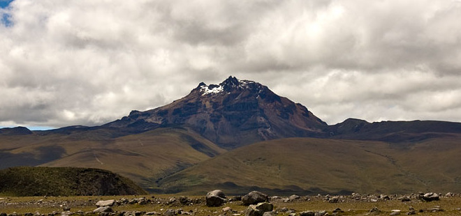 Volcán Sincholagua is an eroded, dormant volcano in the Cotopaxi National Park, Ecuador. The distinctive pointy "chimneys" are the eroded leftovers of volcanic activity.